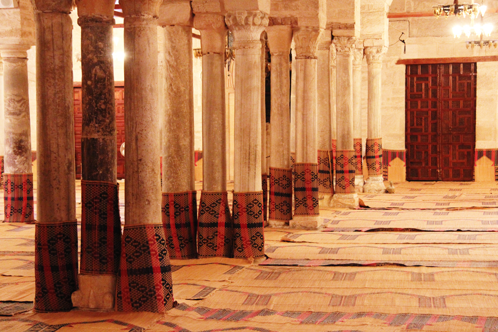 Great Mosque of Sfax - Columns